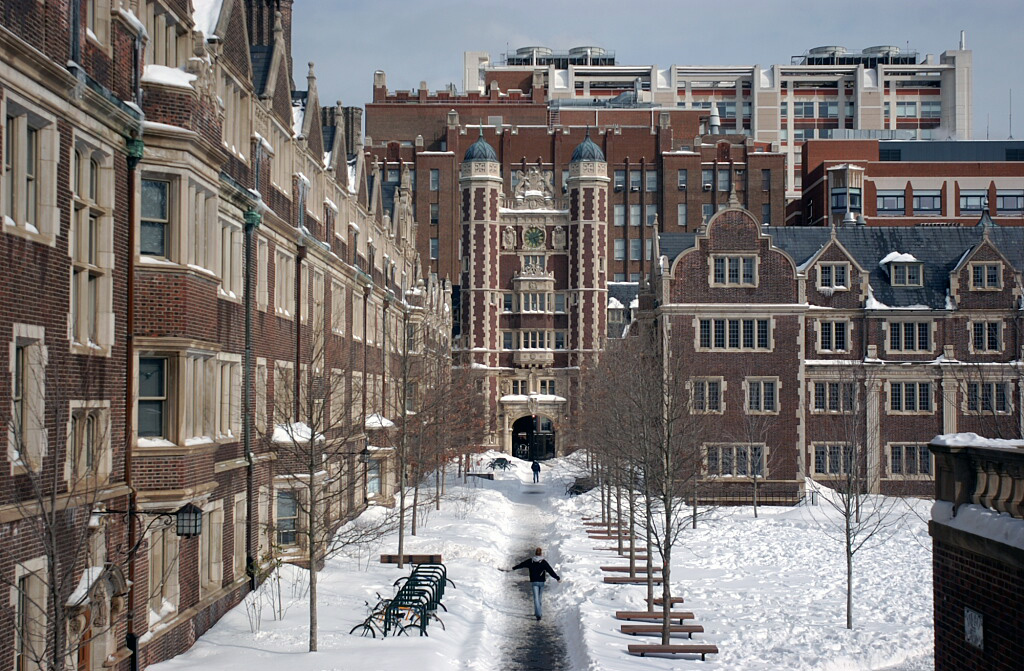 Description: The Quadrangle Dormitory at the University of Pennsylvania, Photographer: Saad Saadi, Date: 2/19/2003